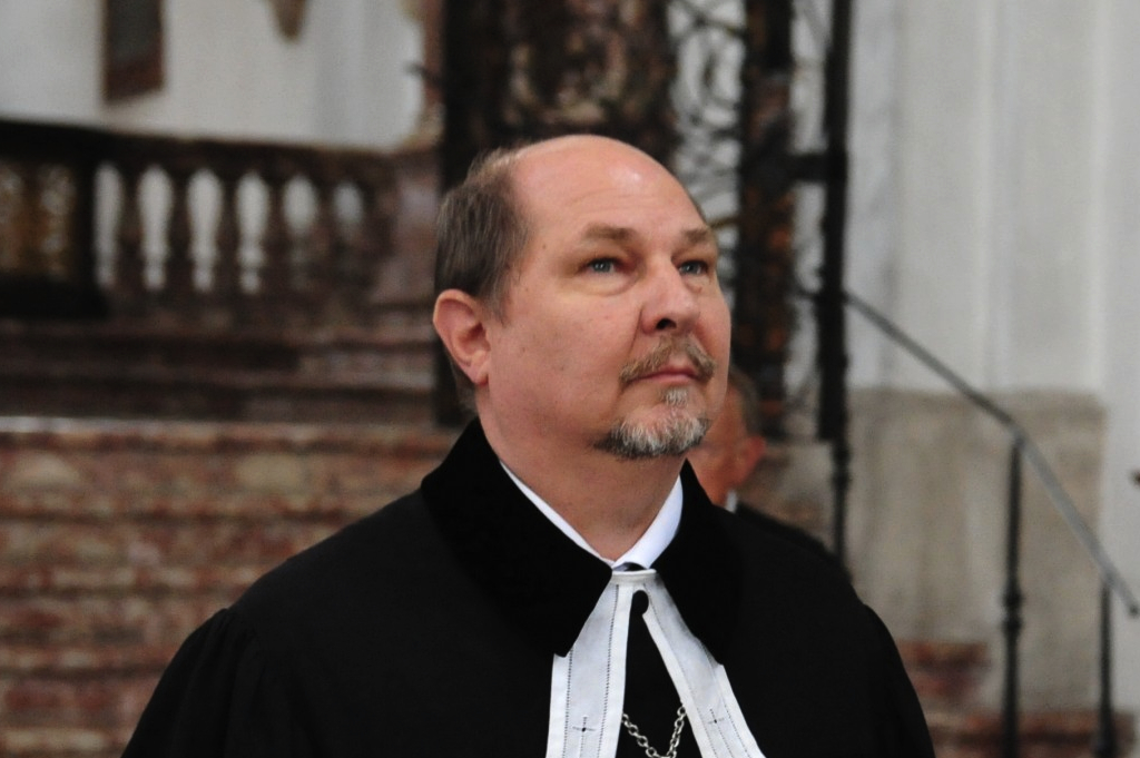 Superintendent Gerold Lehner.